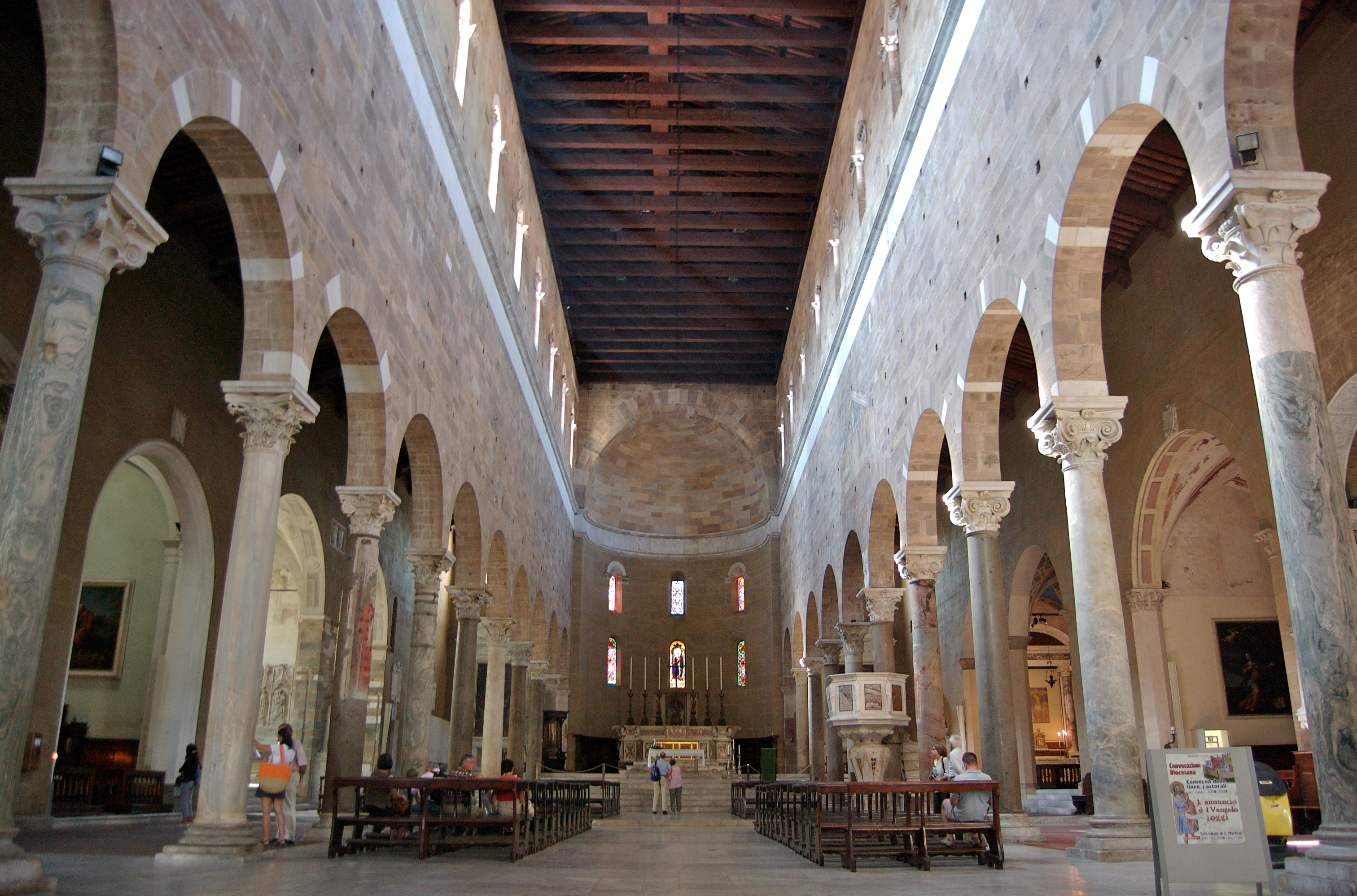 San_Frediano_nave in Lucca, Italy